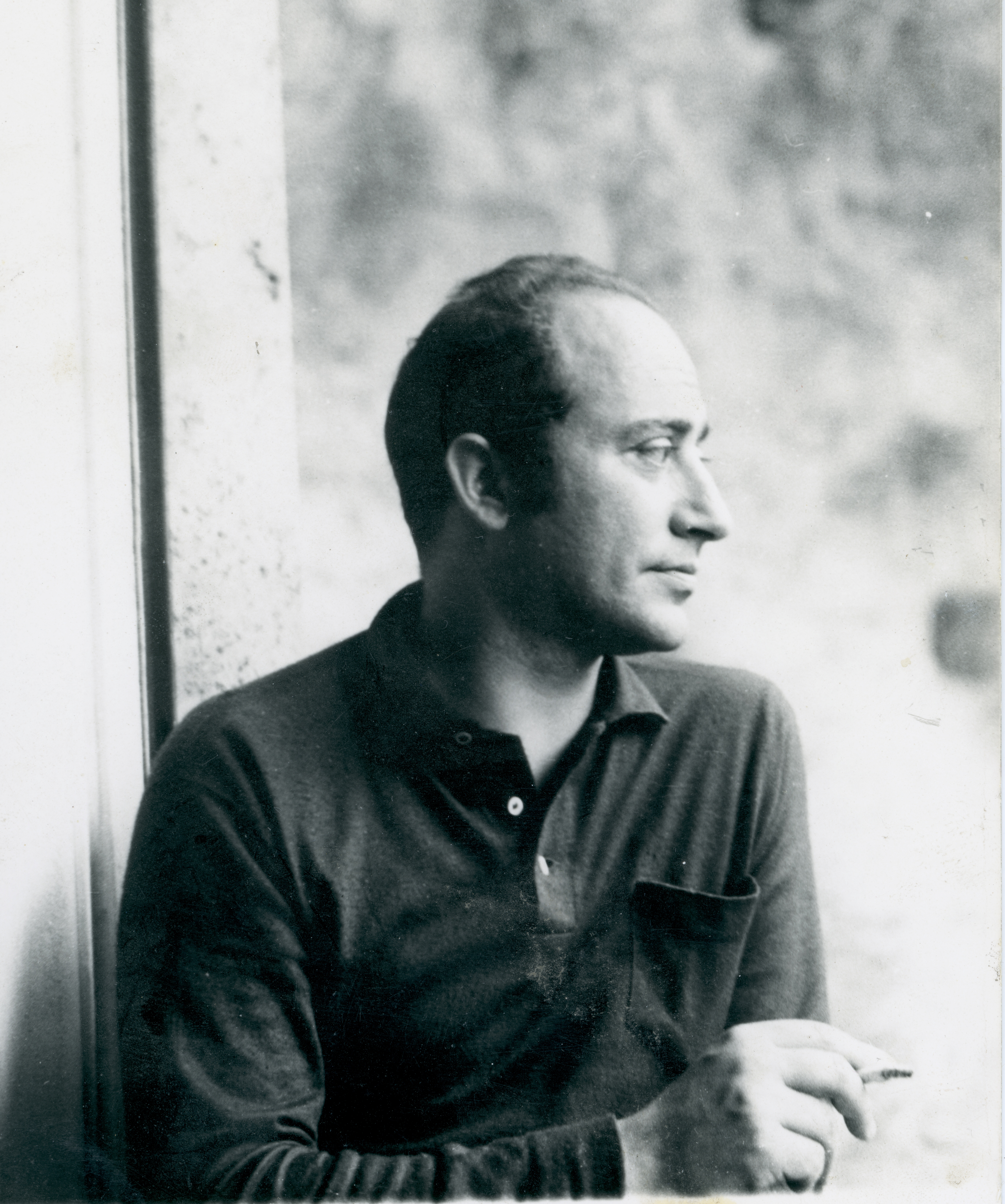 portrait of Carlo Alfano